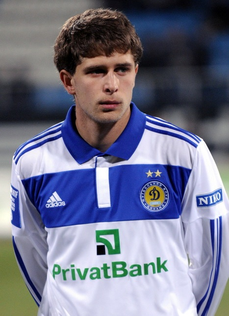 Artem Kravets